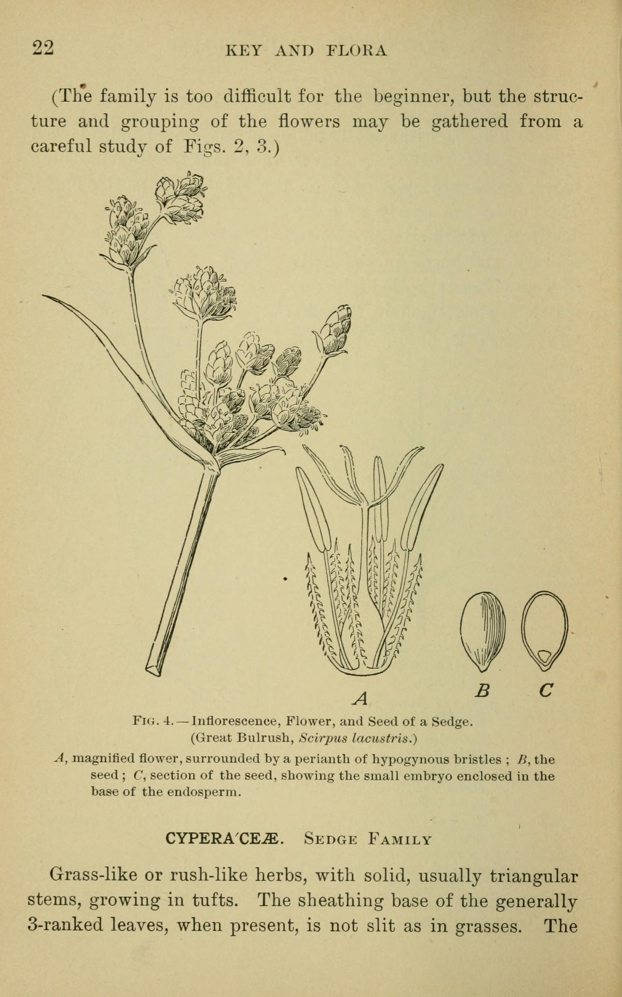 Bergen's botany : key and flora : Pacific coast ed. / prepared by Alice Eastwood.